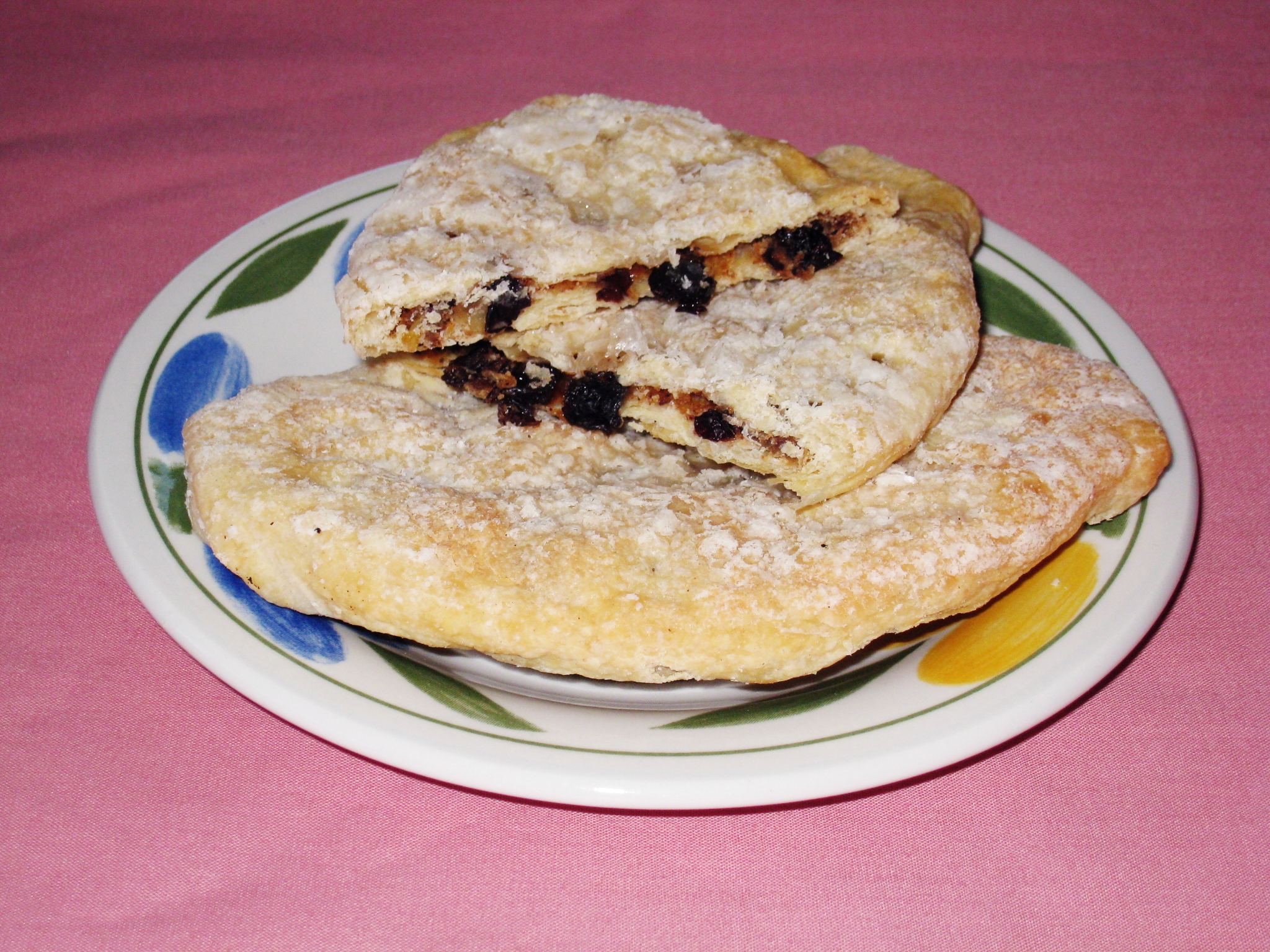 Two Banbury cakes, one having been cut into two pieces. The plate is 7 inches (18 cm) diameter.